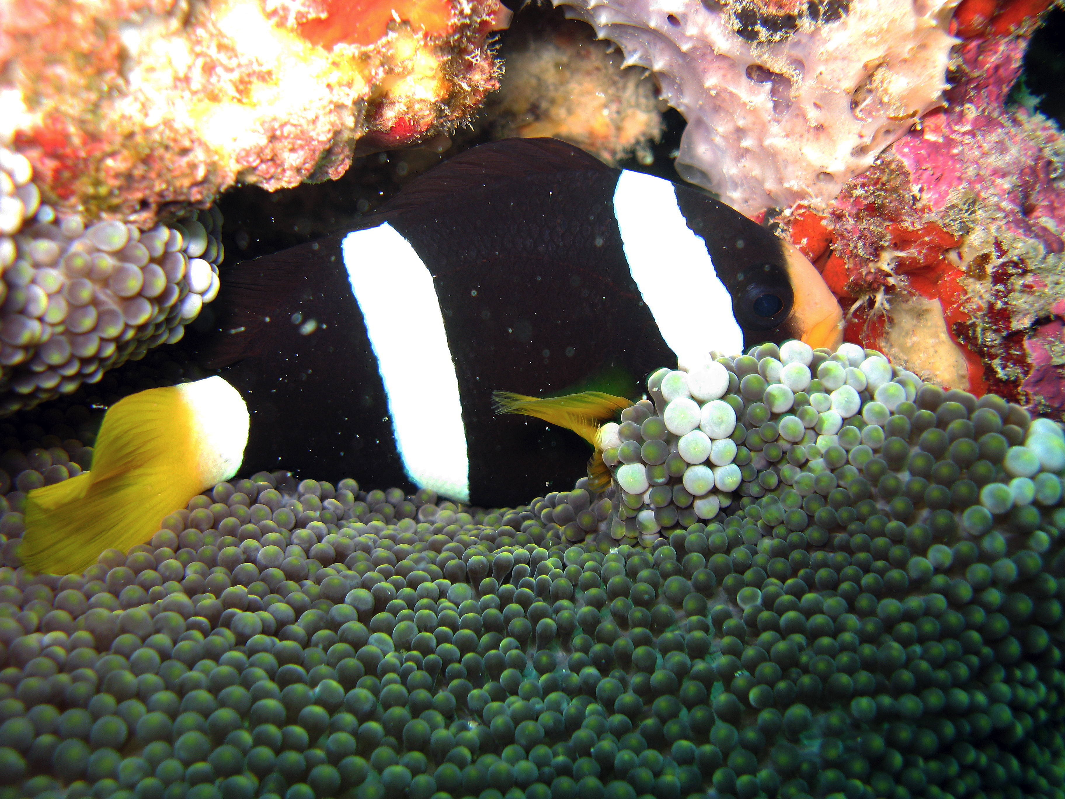 Thailand Andaman Sea February 2008